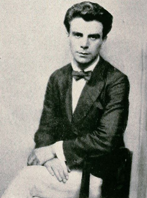 Russian-born Jewish stage actor Jacob Ben-Ami, on page 42 of the February 1923 Shadowland.